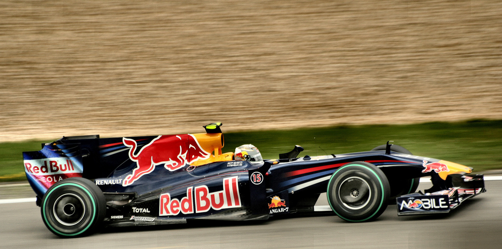 Sebastian Vettel driving for Red Bull Racing at the 2009 German Grand Prix.